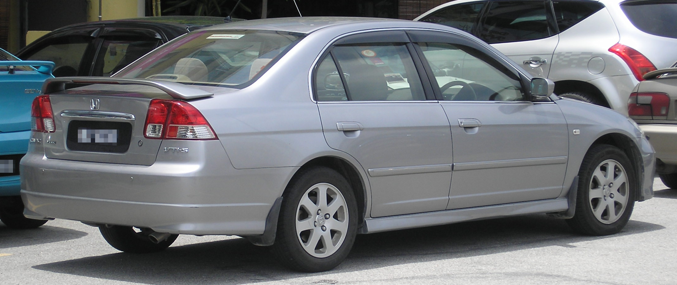 Rear-side shot of an seventh generation, first facelifted Honda Civic, in Serdang, Selangor, Malaysia.